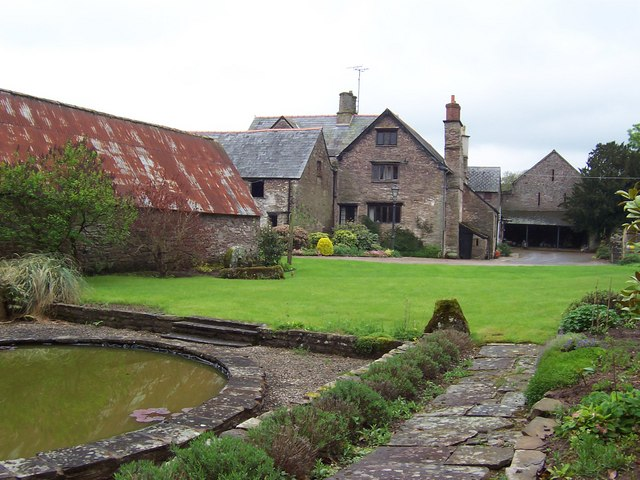 Old Court. Jacobean residence passed by the Offa's Dyke National Trail